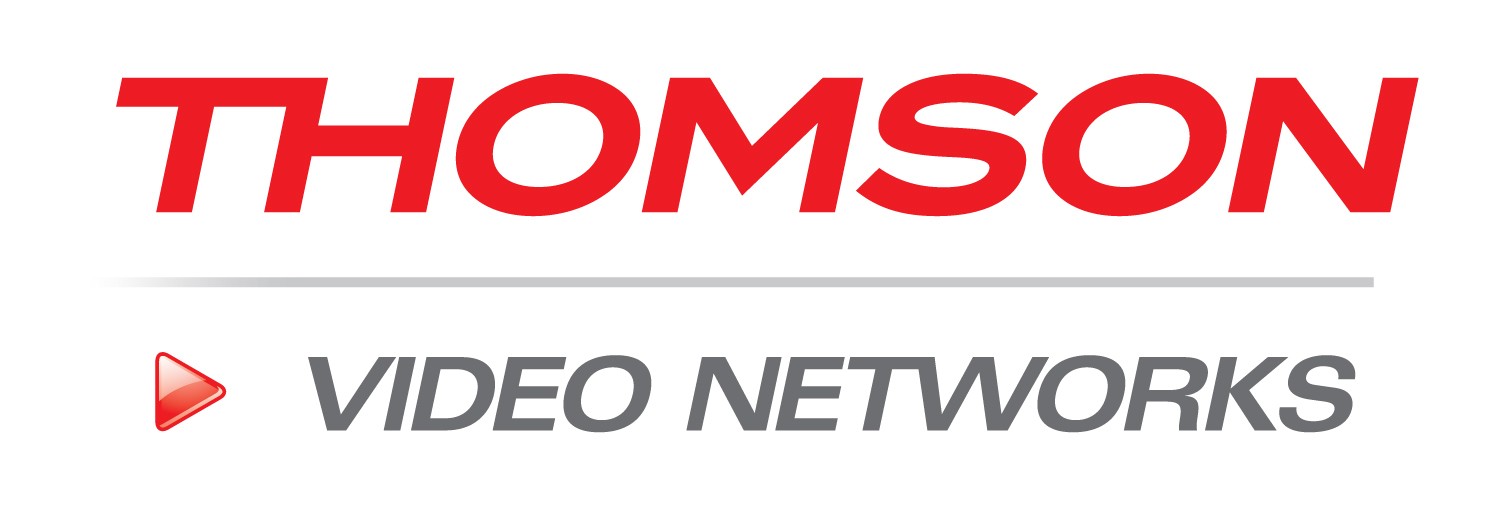 Logo Société Thomson Video Networks